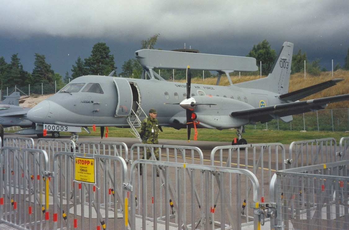 Saab 340 AEW & C as surveillance aircraft (del) (cur) 17:56, 22 April 2006 . . Ballista (Talk) . . 1125x741 (507497 bytes) (my own photo Self|GFDL Talk )